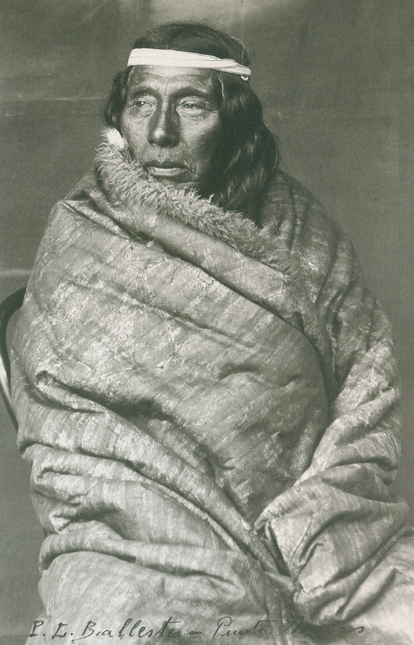 Mulato, a Tehuelche indian chief. He was the son of Biguá, who was also a chief.